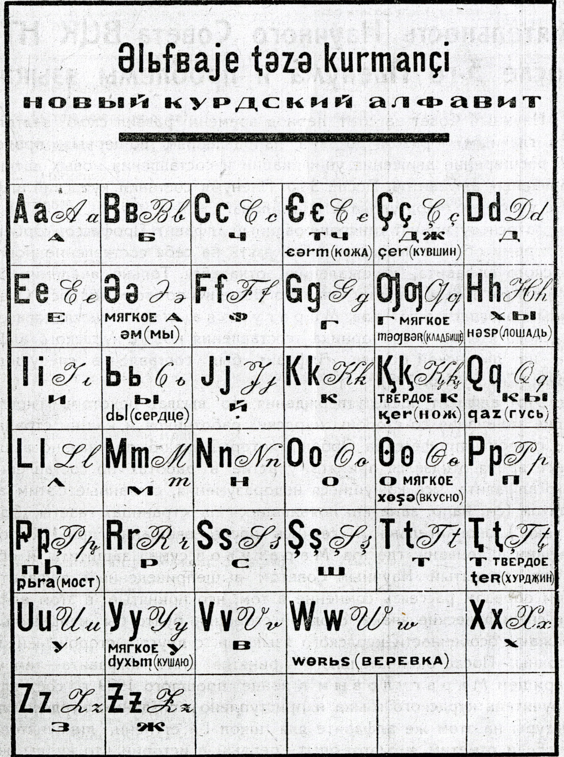 Latin alphabet for Kurmanji language (USSR, 1929 version)